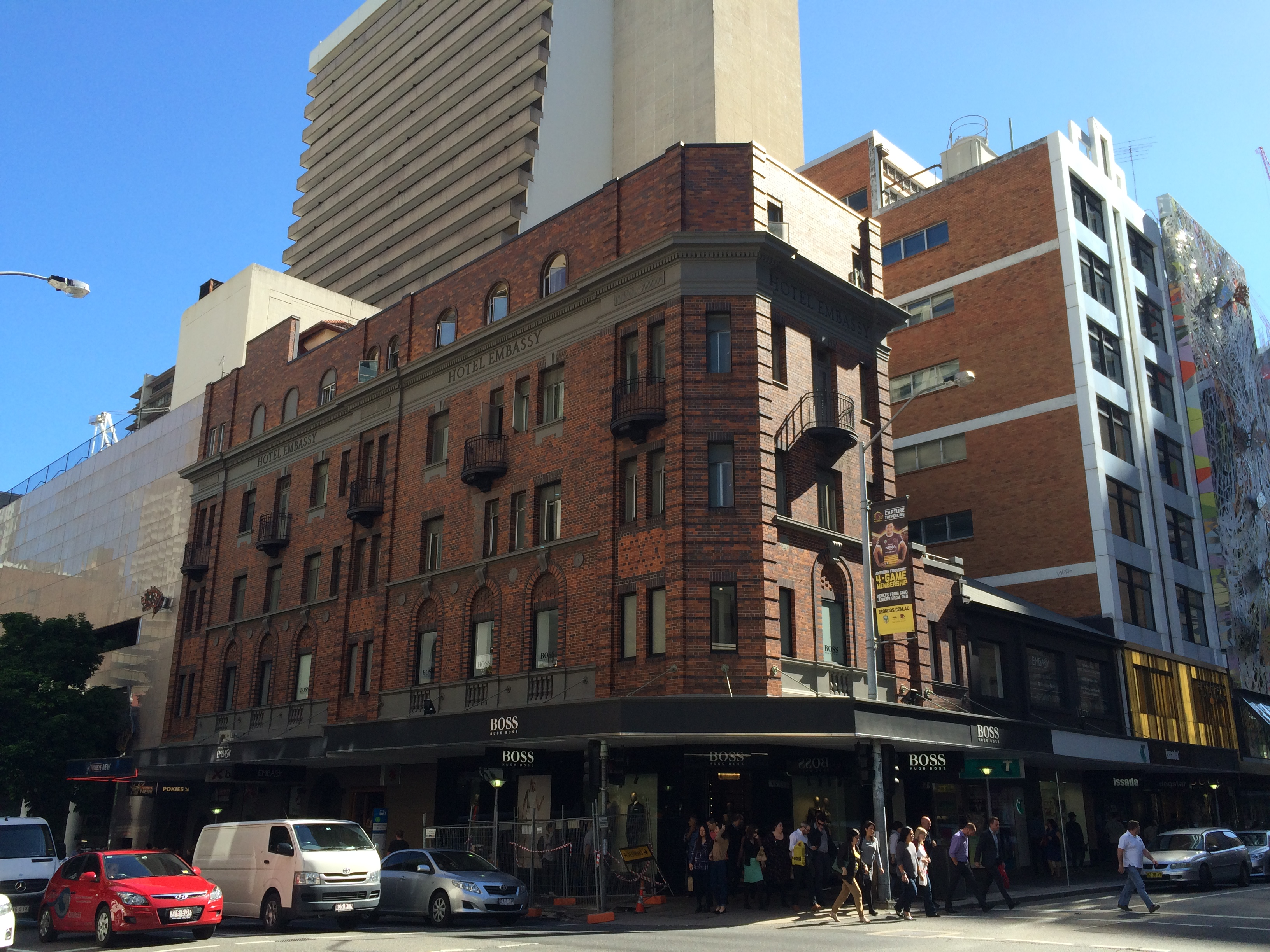 Embassy Hotel, 2015